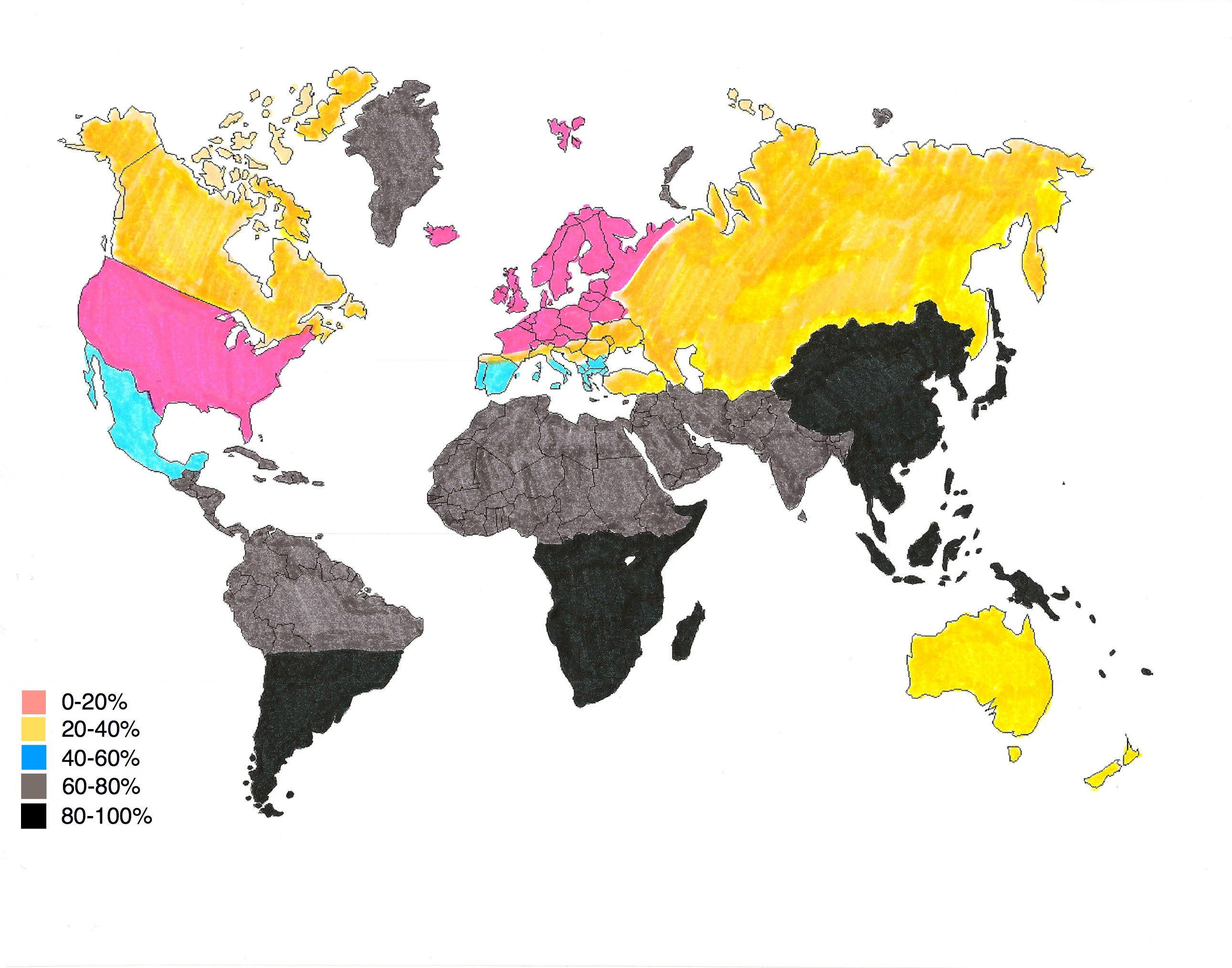 Modern-day lactose intolerance by region